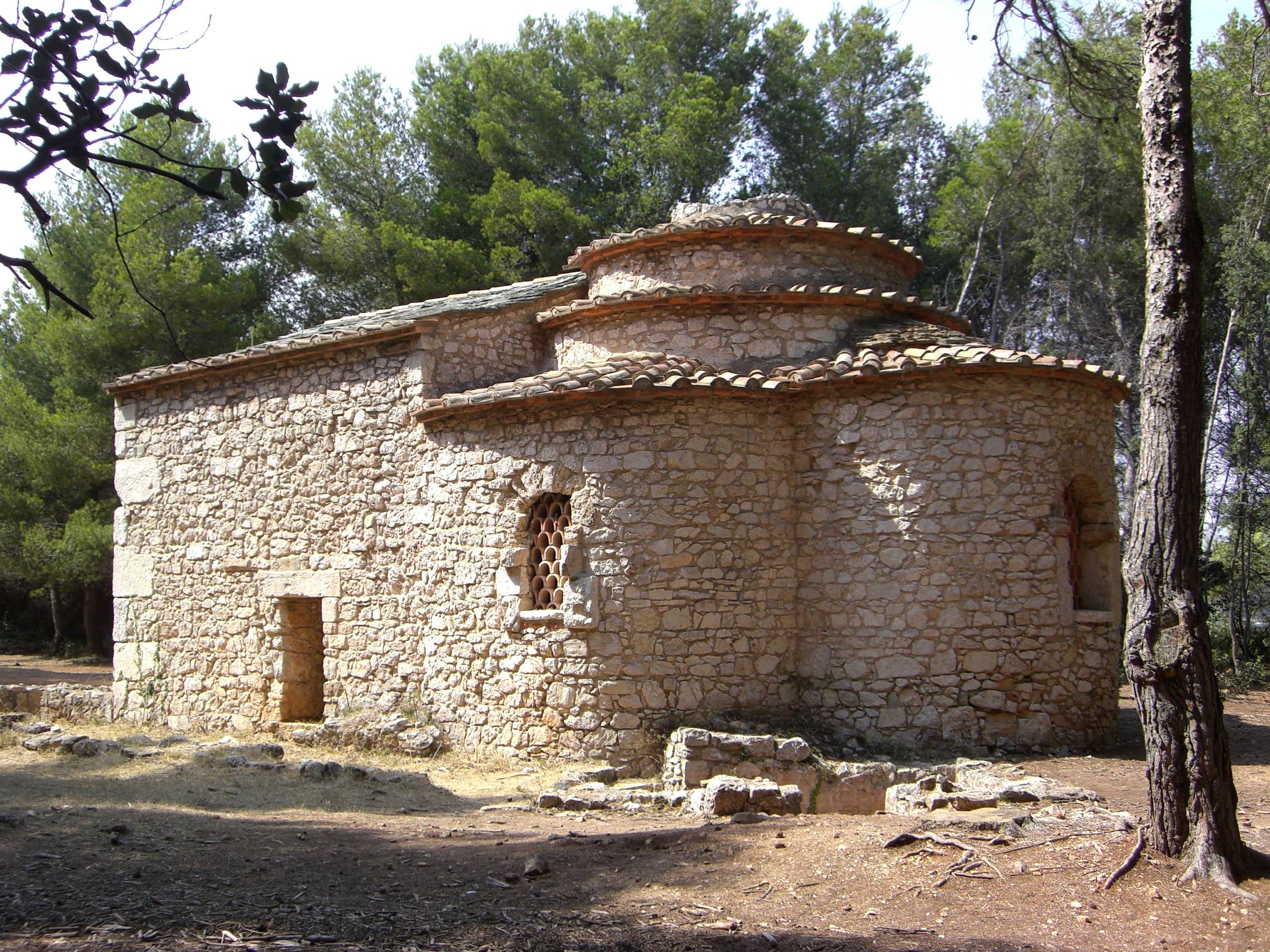 Trinity chapel, on Saint-Honorat island